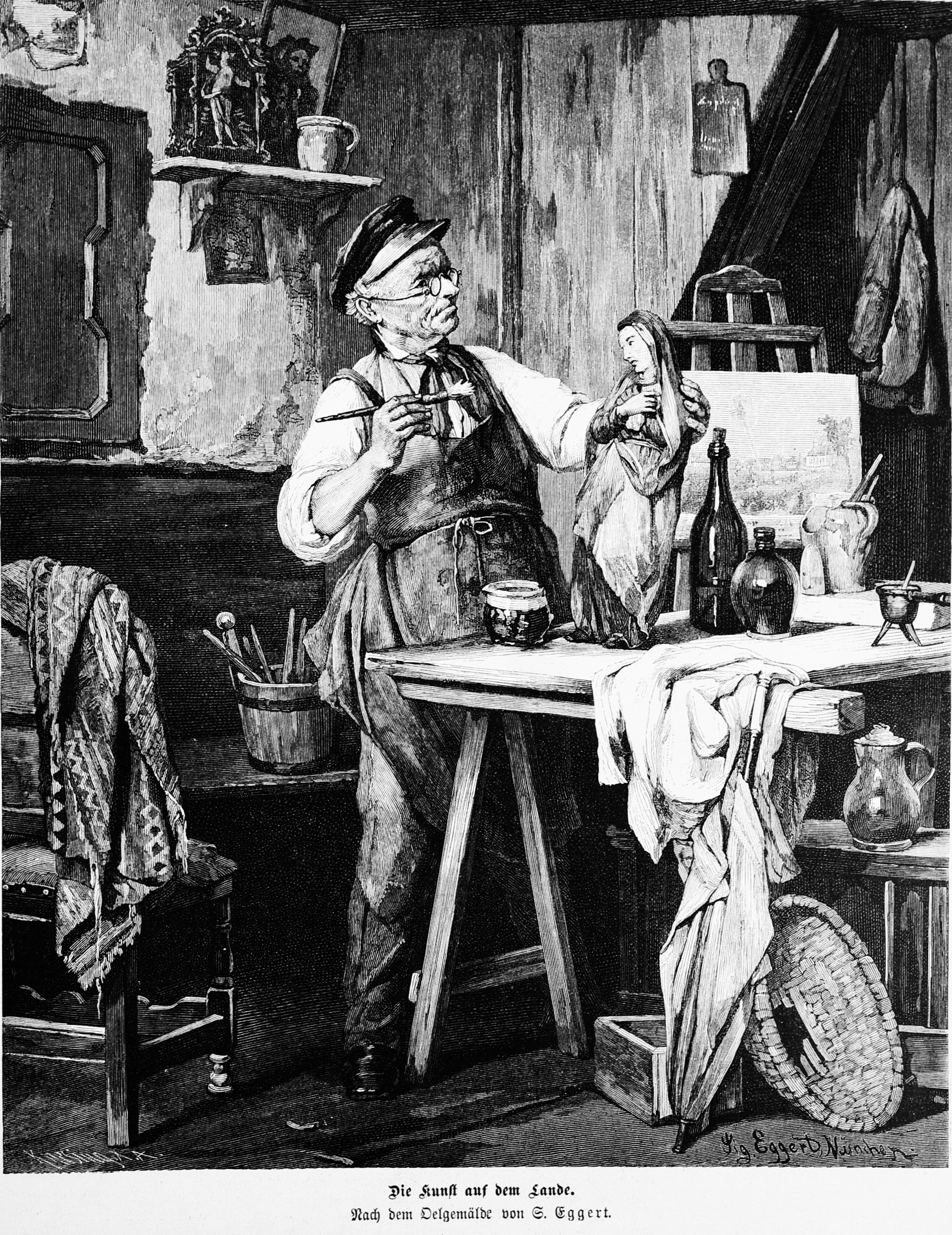 caption: "Die Kunst auf dem Lande.Nach dem Oelgemälde von S. Eggert."